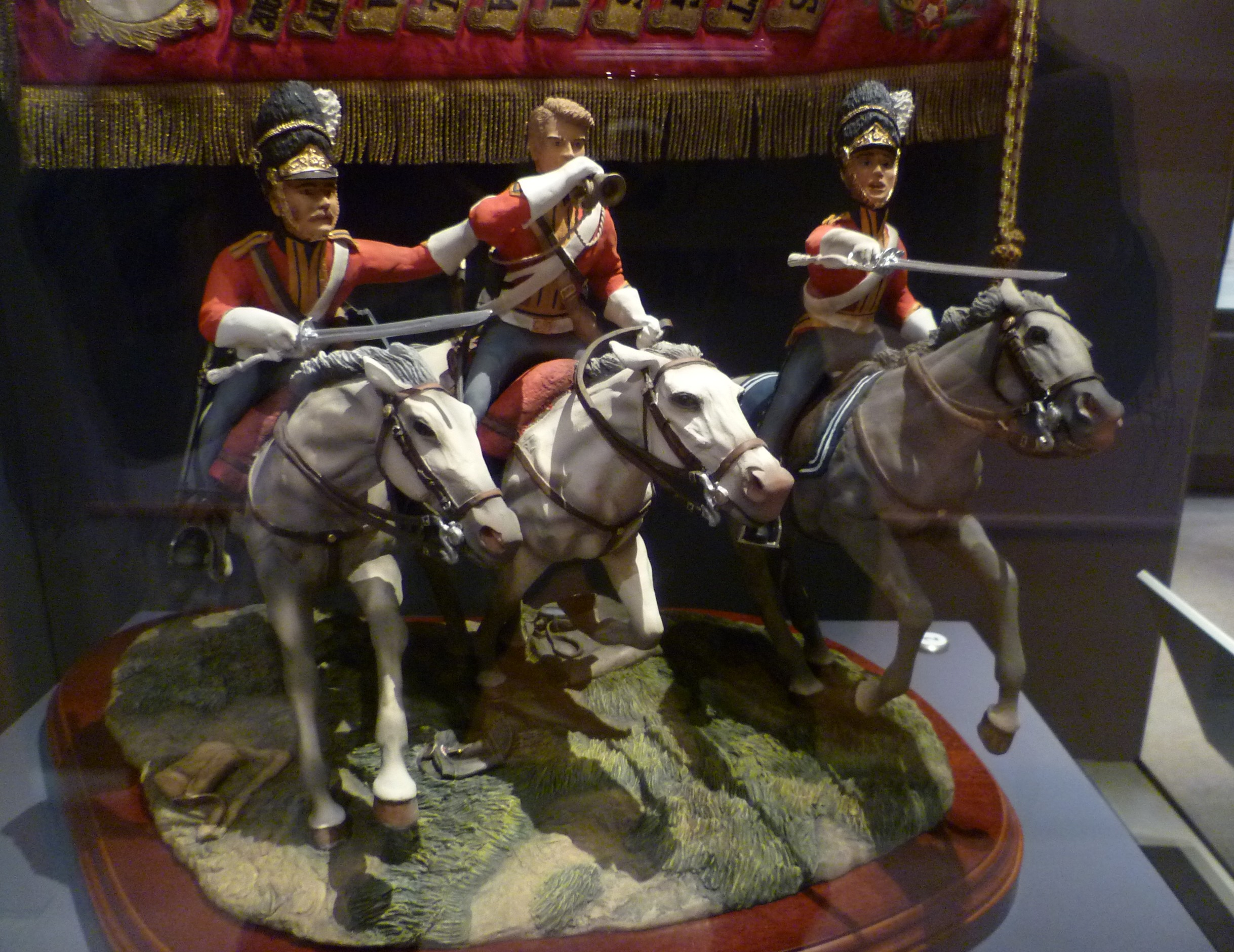 An exhibit in the Regimental Museum at Edinburgh Castle. The regiment, usually referred to as the 'Royal Scots Greys', distinguished itself by its famous cavalry charge at the Battle of Waterloo in 1815. The sculpture in the photograph is made by Ballantynes of Walkerburn, and is part of a series of Royal Scots Greys commemorative items